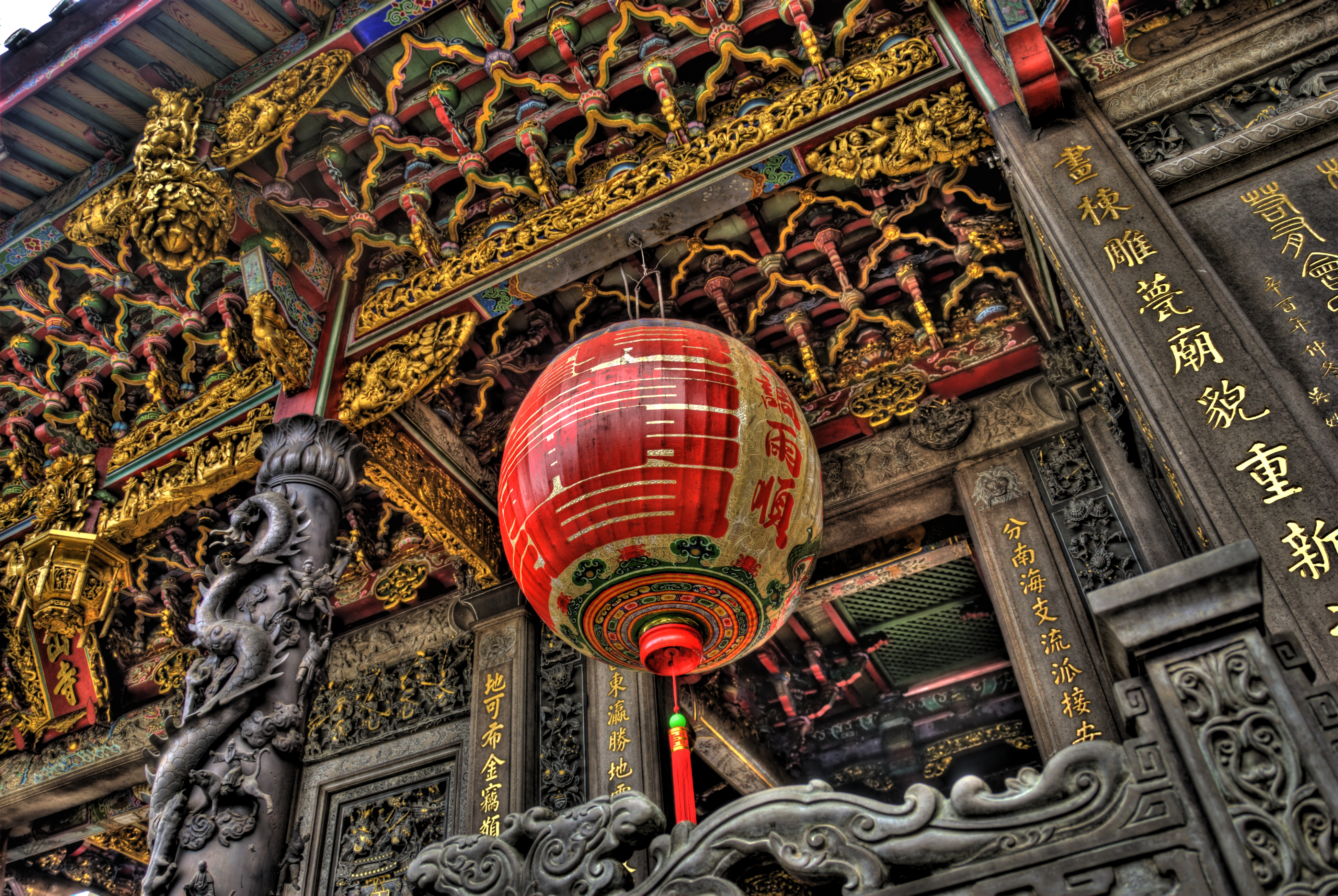 Detail of Longshan Temple in Taipei, Taiwan.